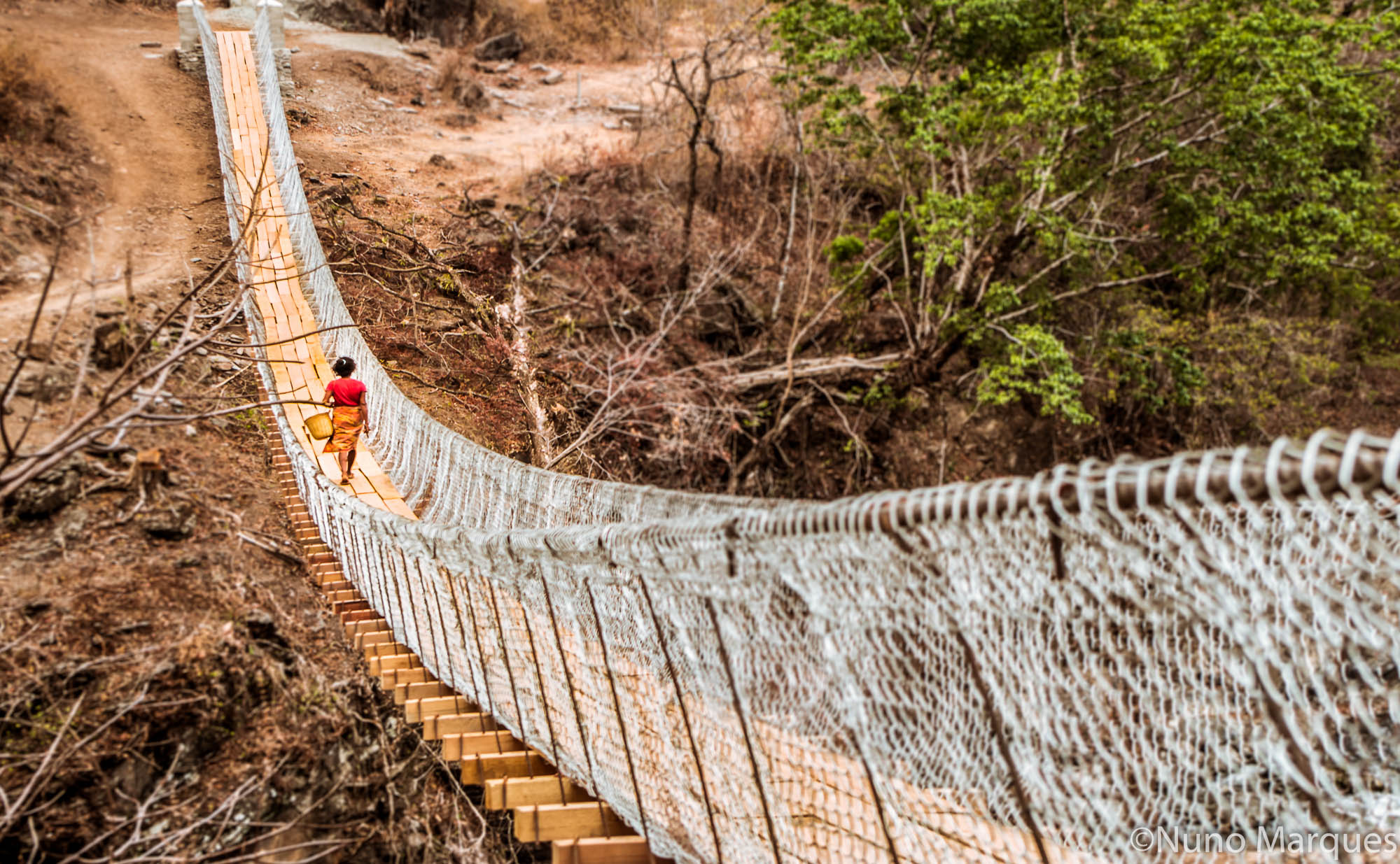 Suspended bridge at the border between sucos Leimea-Craic and Coilate-Letelo, posto administrativo Hatulia, Timor-Leste